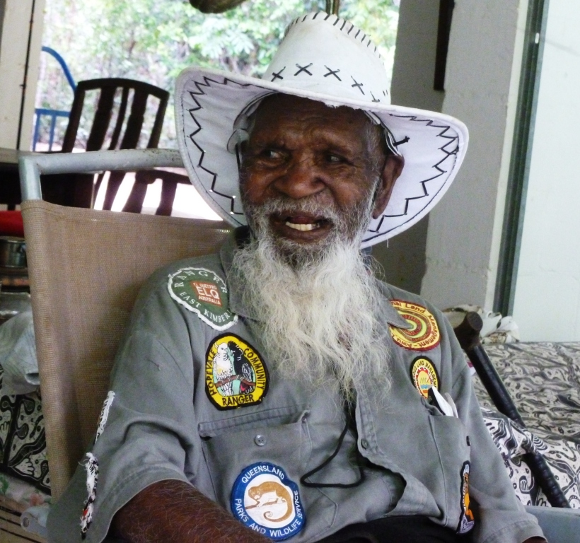 I took this photo at my home near Cooktown in 2011.